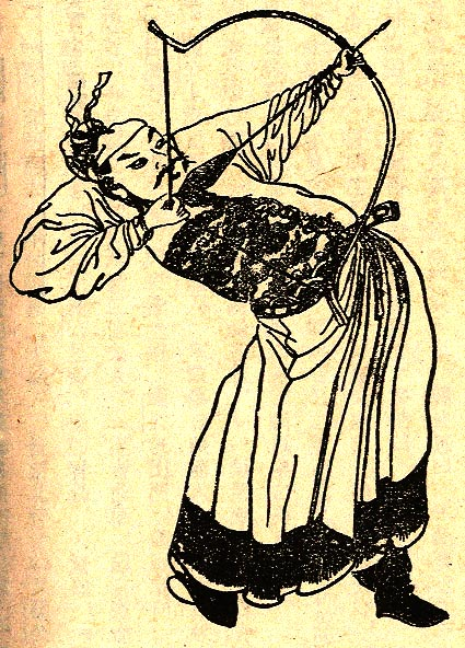 Portrait of Zhang Liao from a Qing Dynasty edition of the Romance of the Three Kingdoms